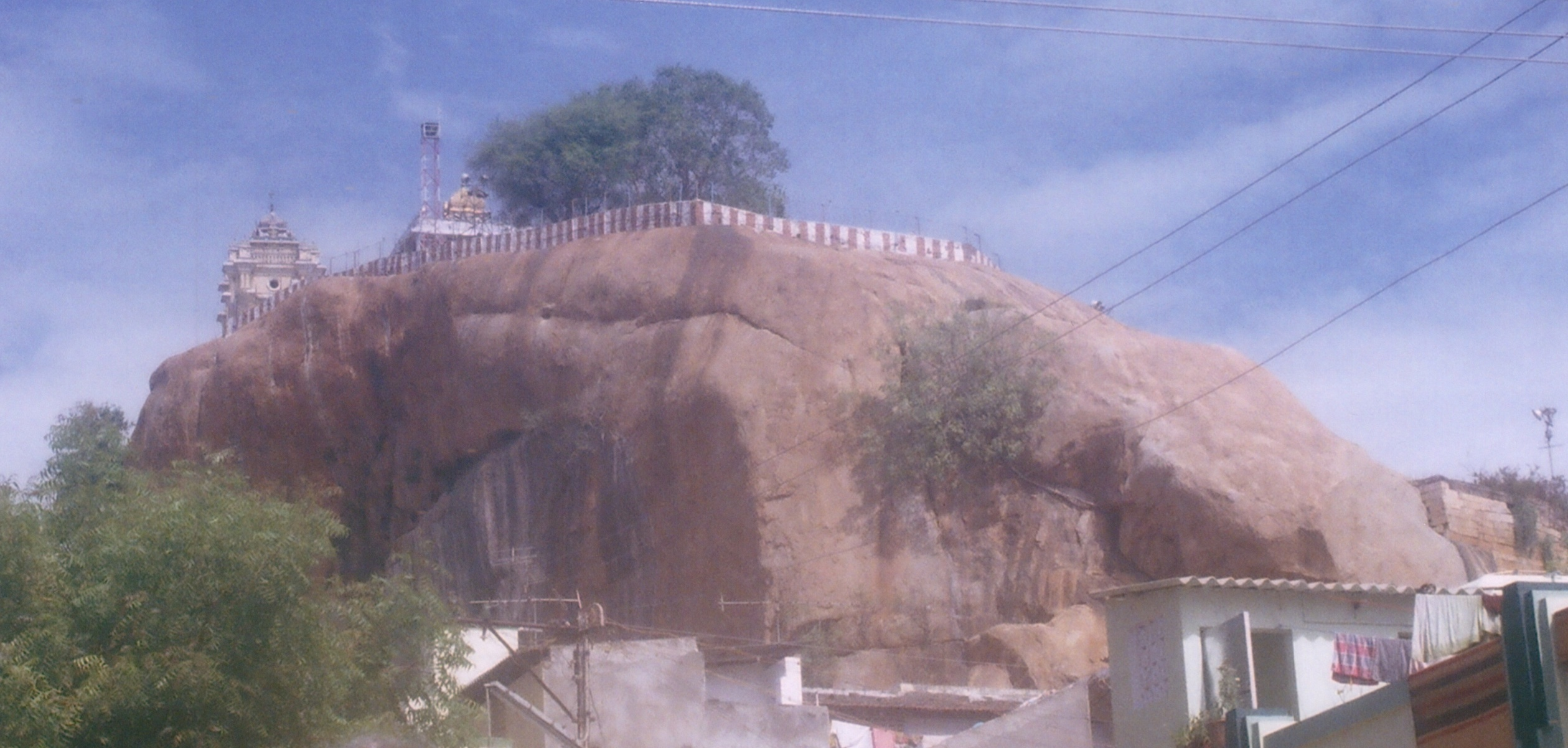 Uchi Pillayar Kovil, in Tiruchirapalli, Tamil Nadu, India. This is a view from the east side, from where one can go to the entrance of the temple on the north of the rock.